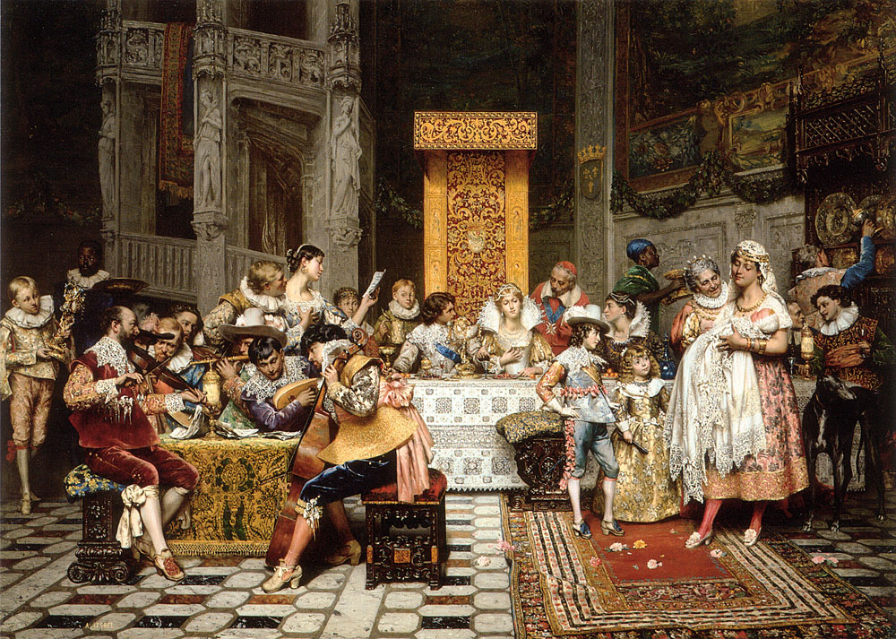 Baptism of the Condé